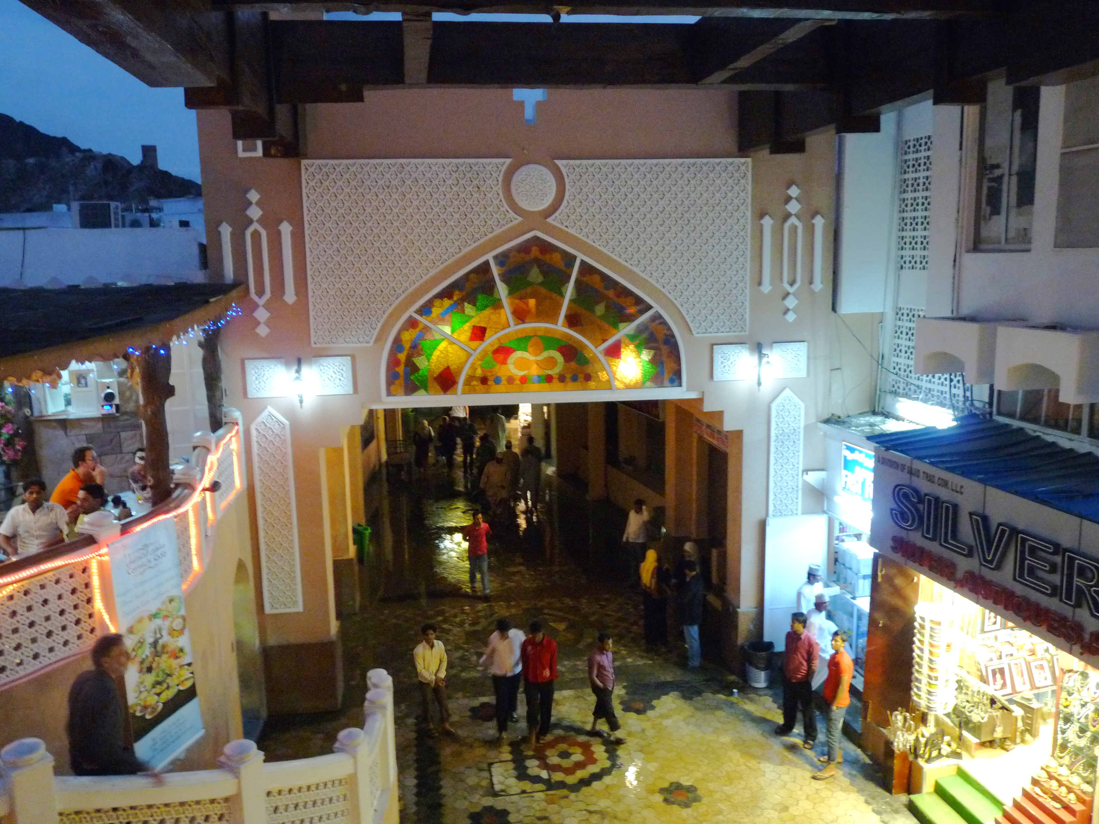 Souq of Mutrah (Oman)